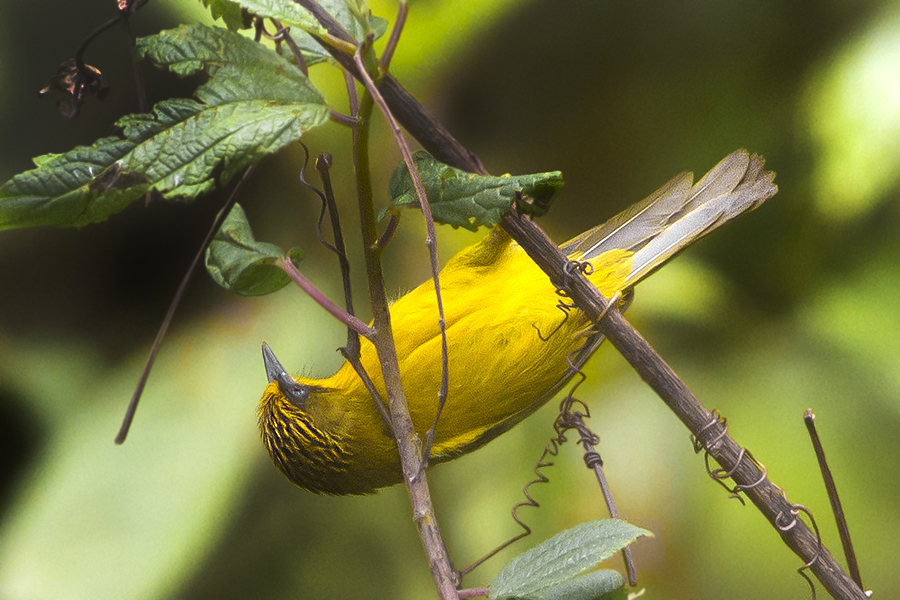 The species Golden Babbler had been photographed from Pangolakha Wildlife Sanctuary in East Sikkim, India on 20.04.2016.